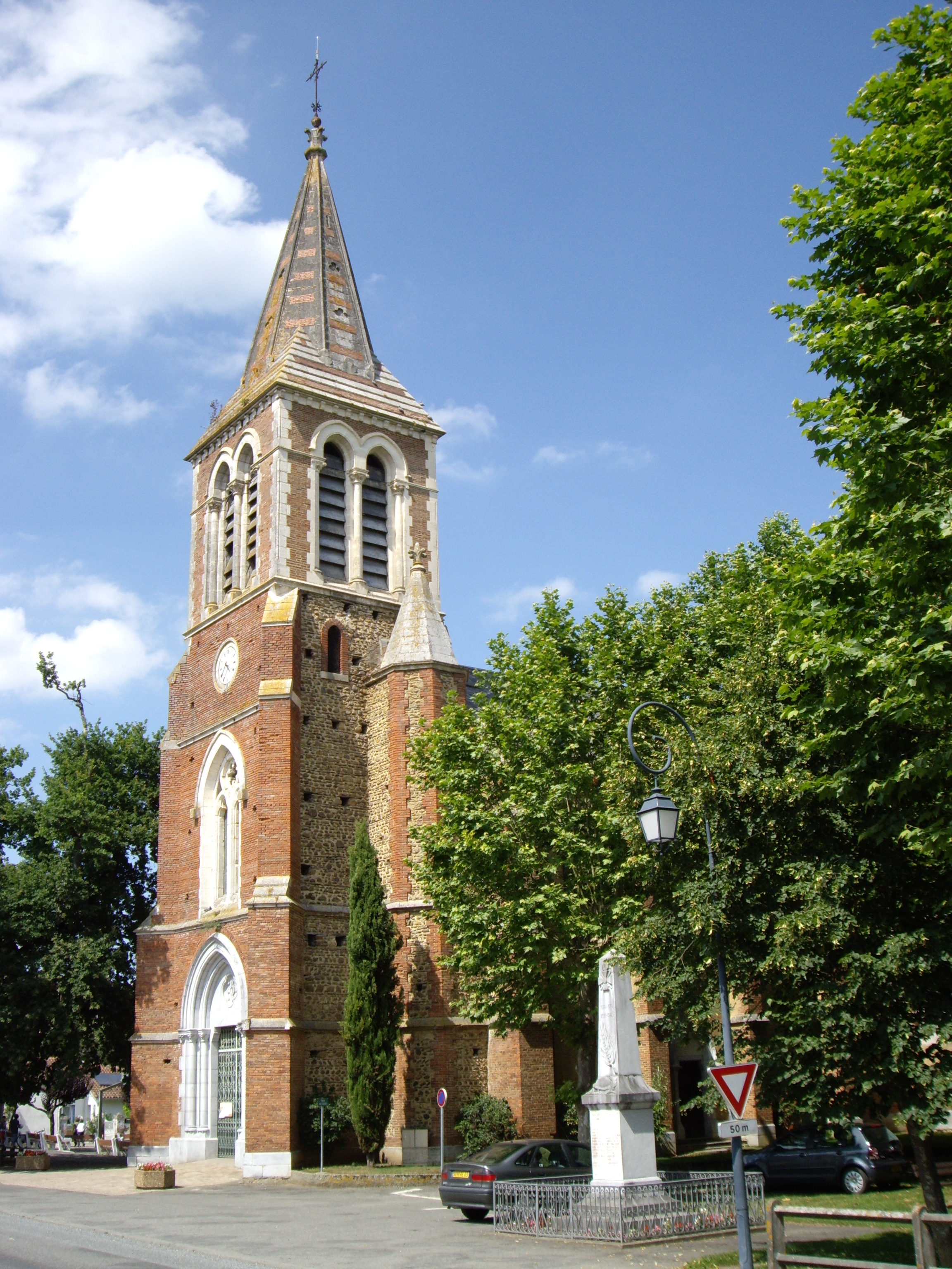 St. Cristopher Church, Bordes, Hautes-Pyrénées, France